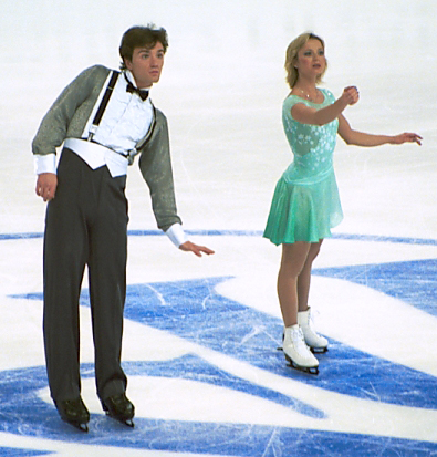 Yelena Berezhnaya and Anton Sikharulidze compete their long program at the 2001 Grand Prix Final in Kitchener, Ontario. Photo taken by me, Vesperholly 05:43, 17 July 2006 (UTC)